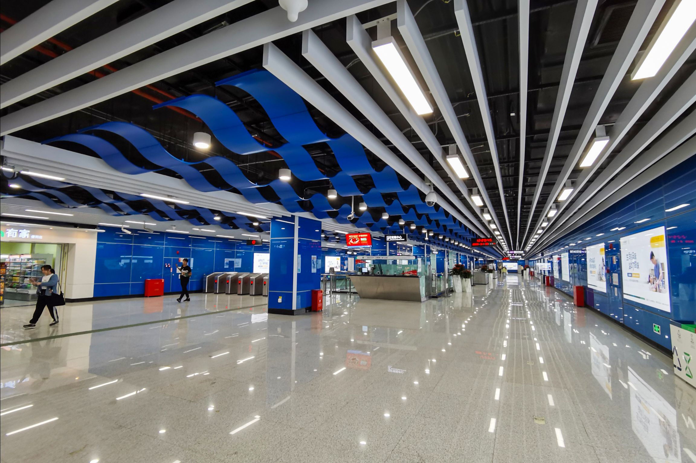 广州地铁科学城站